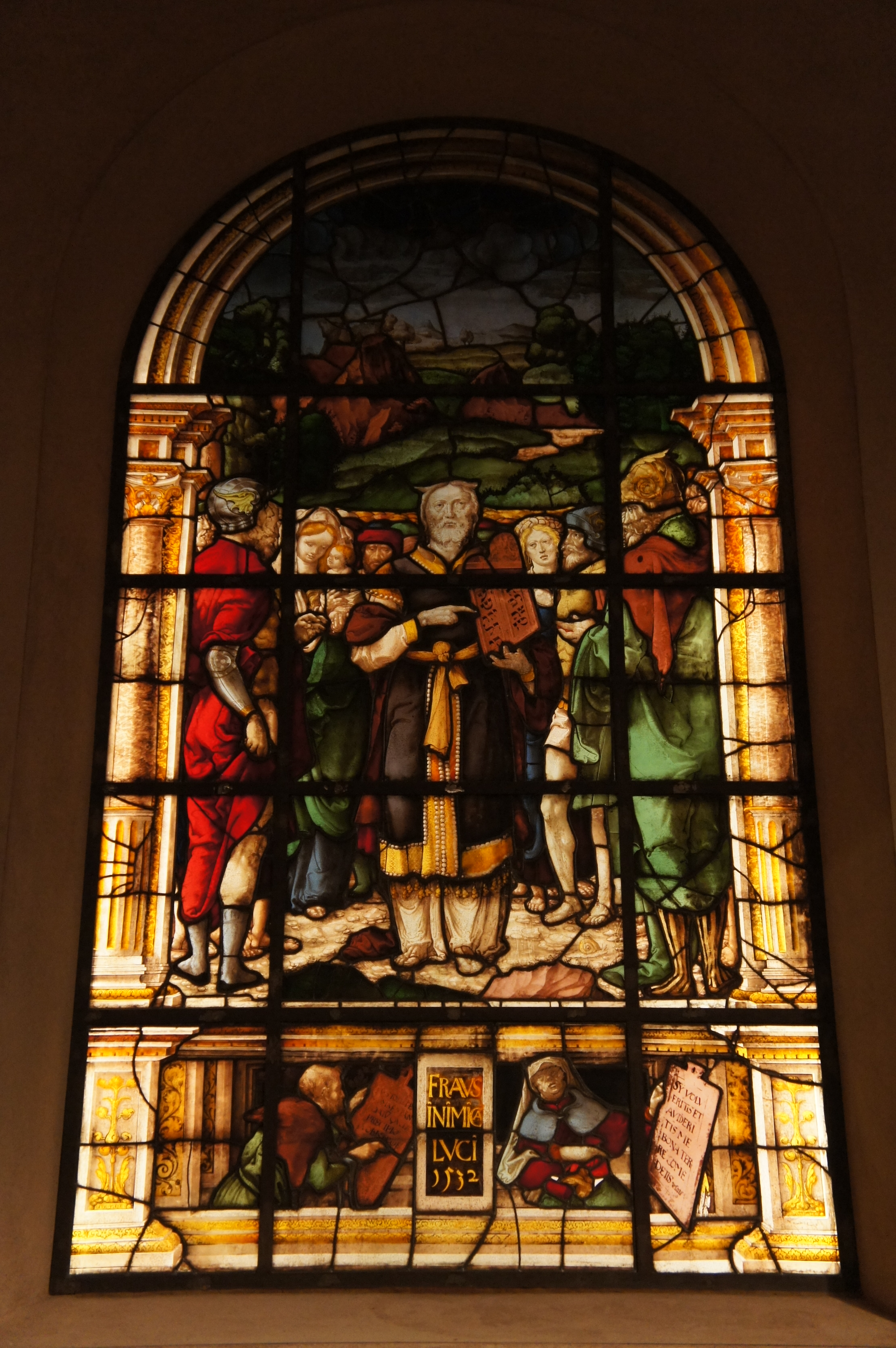 Moses presenting the Tables of Law; Glass, painted and stained; designed and made by Valentin Bousch (active 1514-1541); Metz, 1532; from a series of seven windows made for the choir of the Benedictine priory chuch of Saint-Firmin in Flavigny-sur-Moselle in Lorraine; purchase, Joseph Pulitzer bequest, 1917; 17.40.1a-r